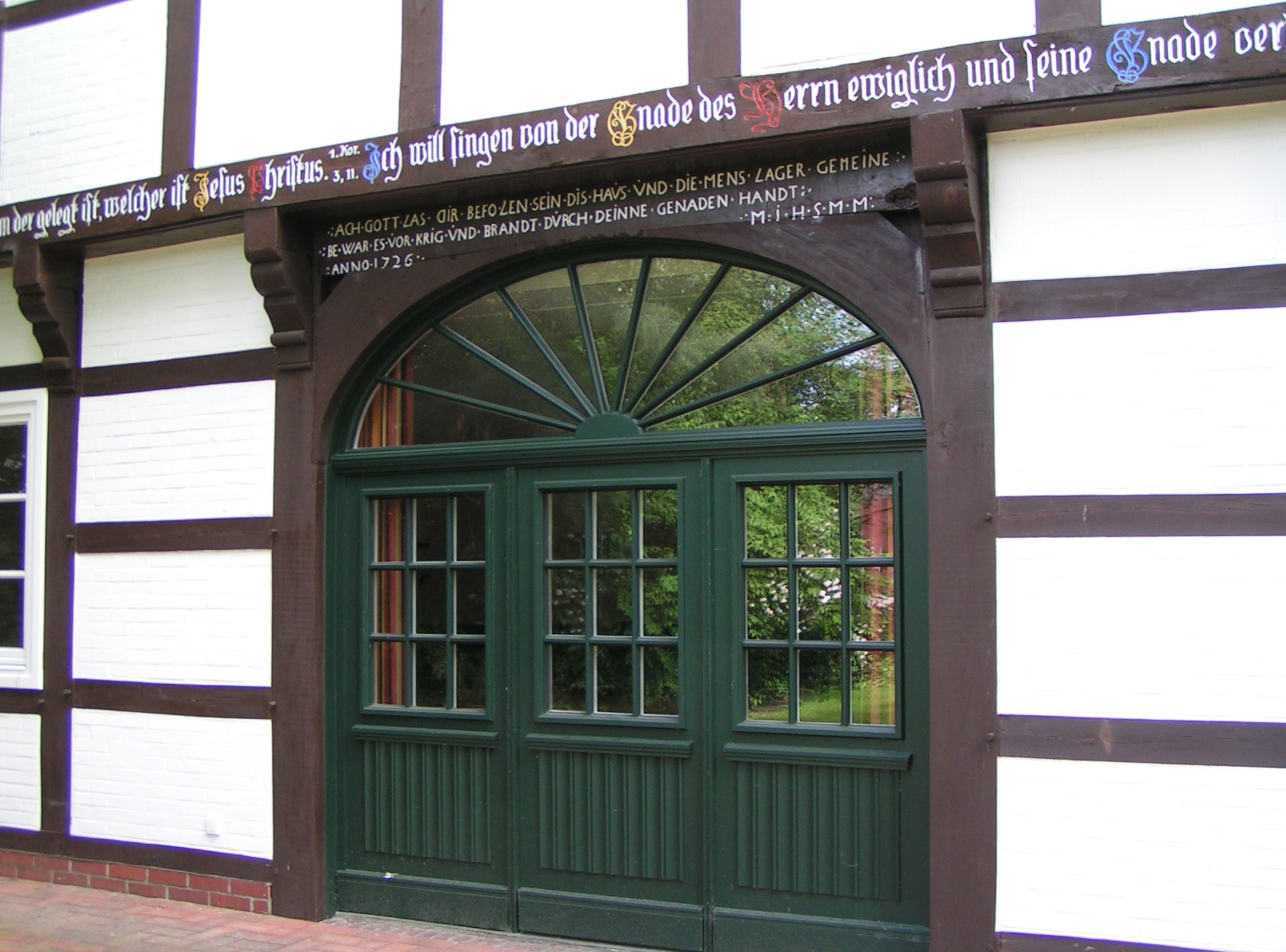 Evangelisches Pfarrhaus in Menslage